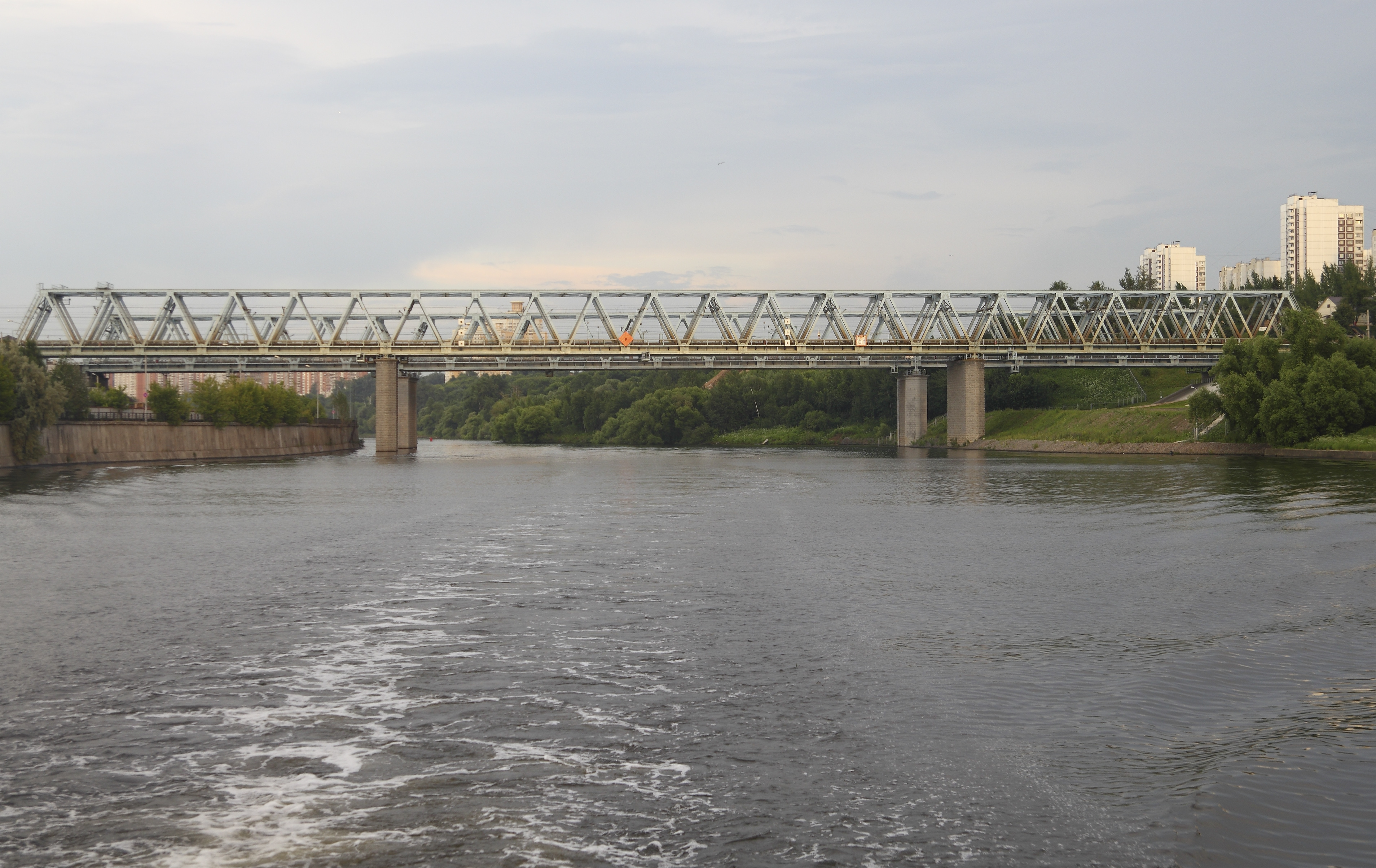 Saburovo railway bridges in Moskvorechye-Saburovo, Moscow